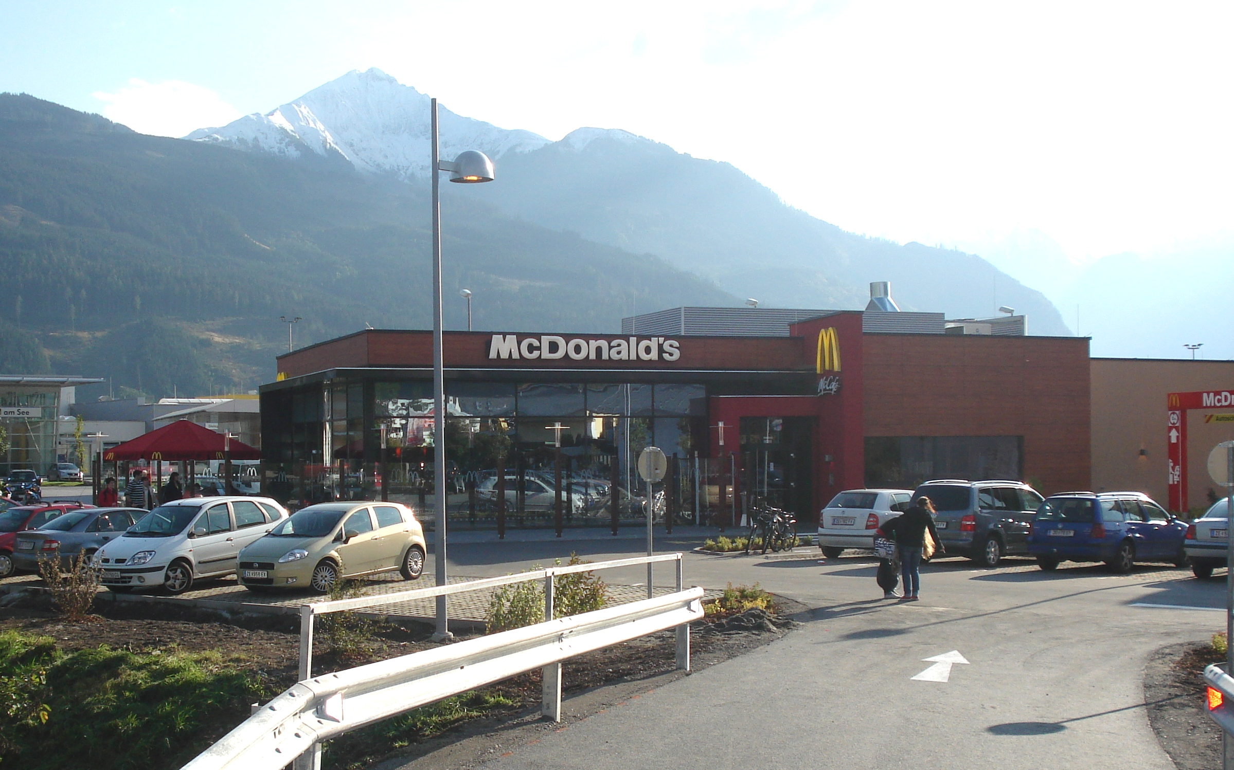 A restaurant of McDonald's in Zell am See, Austria